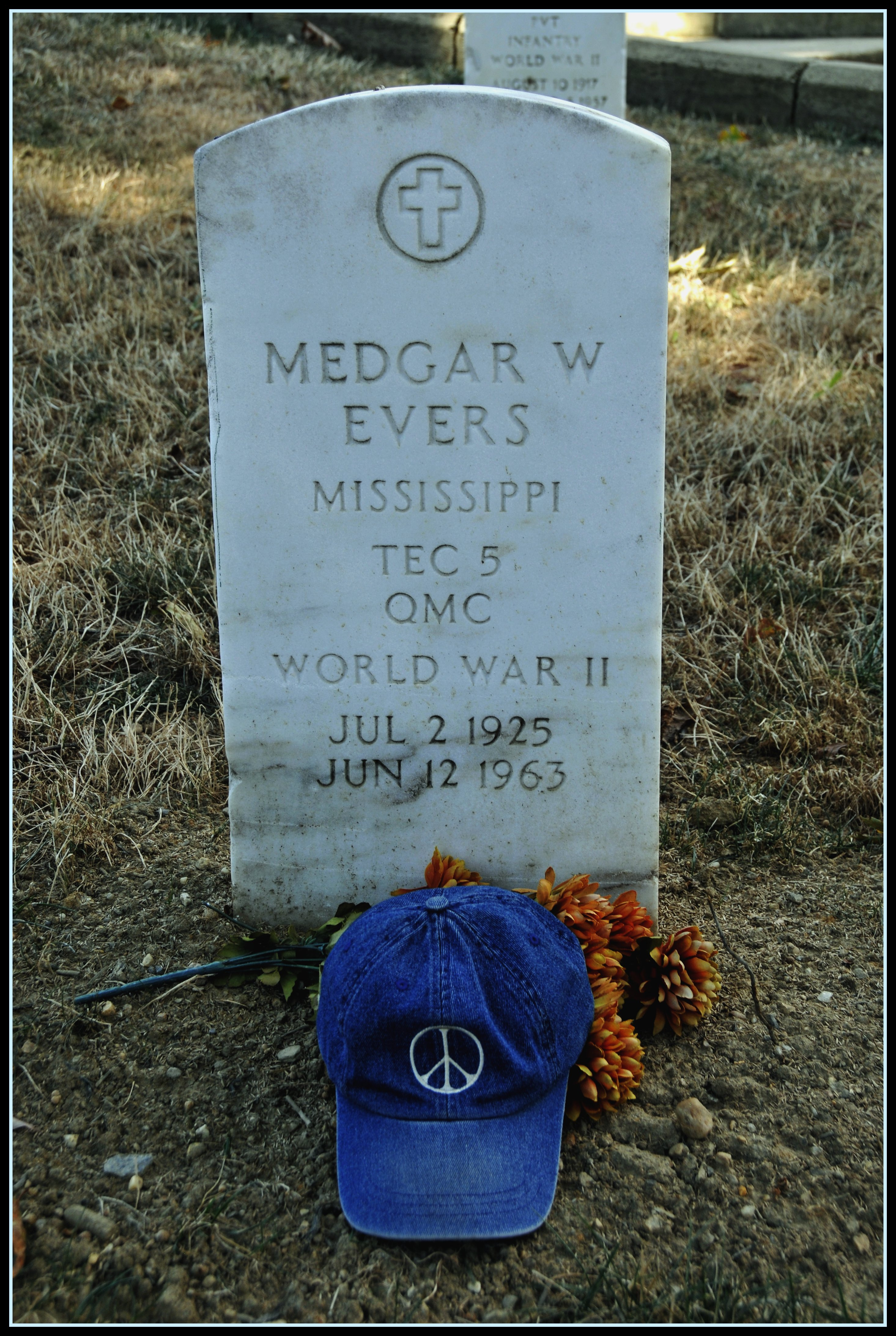 Tony and I visited with Medgar Evers awhile back. He asked me to give you some information about this courageous man: Medgar Evers served in the US armed forces during WWII, yet when he returned to his native Mississippi, like veterans all over the segregated South, he was forced to reenter a world of injustice and inequality. He began wirk for the NAACP in 1954, becoming Mississippi's first Field Secretary. Evers lived not only with daily harrassment, but with terrorist threats as he traveled throughout the state, trying to recruit NAACP members and to gather evidence against those who murdered black people. When James Meredith became the first African-American admitted to the University of Mississippi under federal protection in 1962, Evers visited him frequently. The victory for school integration prompted him to attack segregation in his hometown of Jackson. Evers' campaign began on May 28, 1963, with sit-ins at Woolworths. Just two weeks later he was shot to death outside his home. On June 23, 1964, Byron De La Beckwith, a fertilizer salesman and member of the White Citizens' Council and Ku Klux Klan, was arrested for Evers' murder. During the course of his first trial in 1964, De La Beckwith was visited by former Mississippi governor Ross Barnett and one time Army Major General Edwin A. Walker. All-white juries twice that year deadlocked on De La Beckwith's guilt. In 1994, 30 years after the two previous trials had failed to reach a verdict, Beckwith was again brought to trial based on new evidence, and Bobby DeLaughter took on the job as the attorney. During the trial, the body of Evers was exhumed from his grave for autopsy, and found to be in a surprisingly good state of preservation as a result of embalming. Beckwith was convicted of murder on February 5, 1994, after having lived as a free man for the three decades following the killing. Beckwith appealed unsuccessfully, and died in prison in January 2001. sources: Library of Congress, Wiki - The Peace Hat